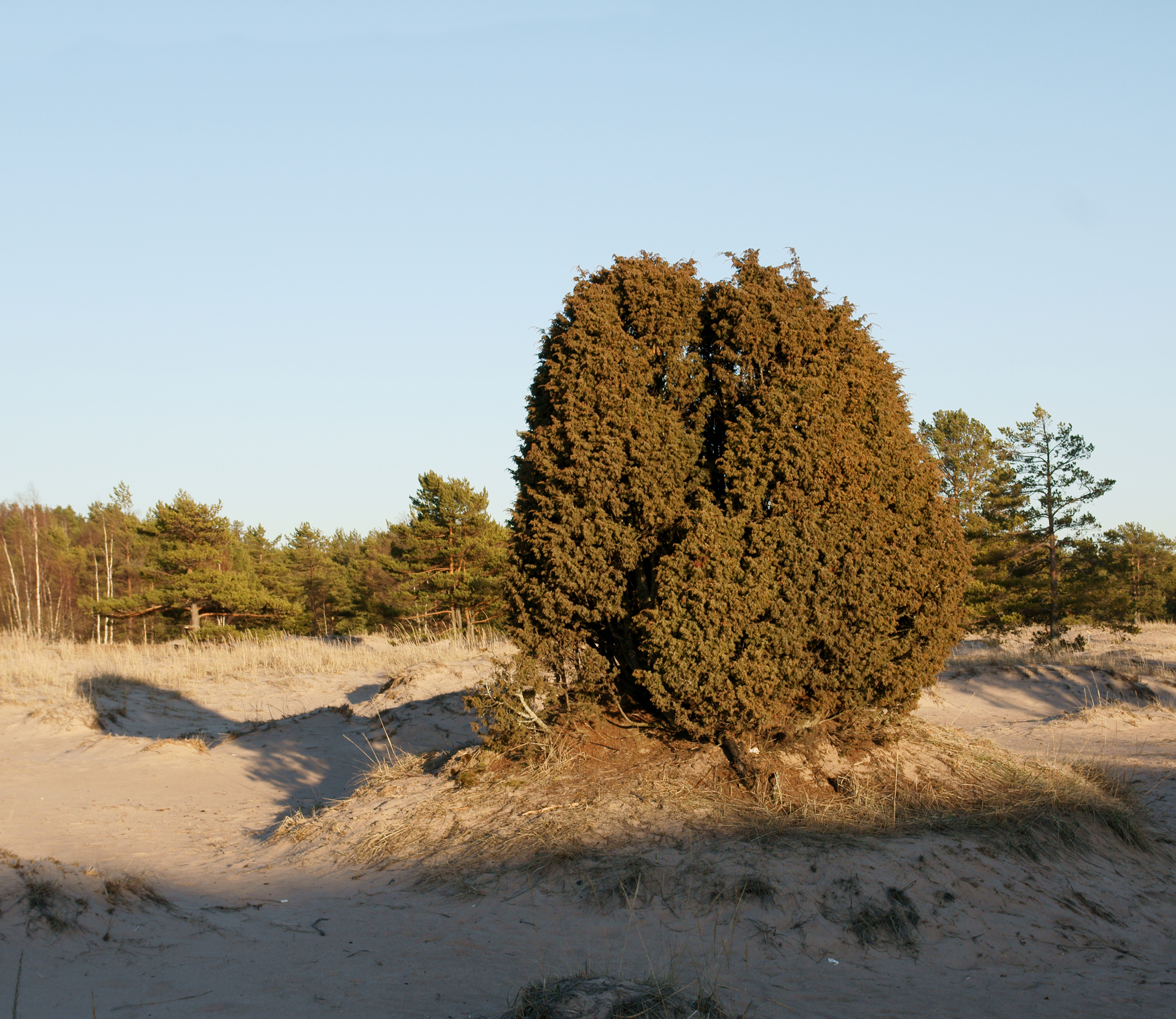 Common Juniper (Juniperus communis) in Yyteri, Finland.